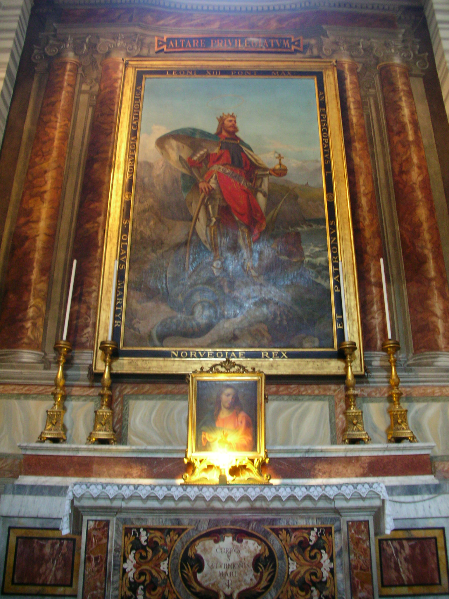 Rome: Pius Weloński (1849-1931), "Saint Olav II, King of Norway" (1893). San Carlo al Corso.